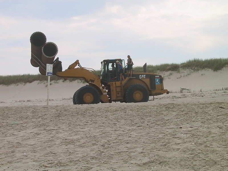 Protection of the coast, Sylt, Germany